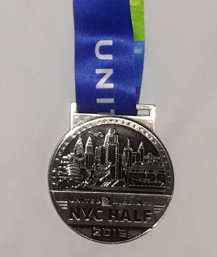 The official 2016 New York Half Marathon finisher medal.